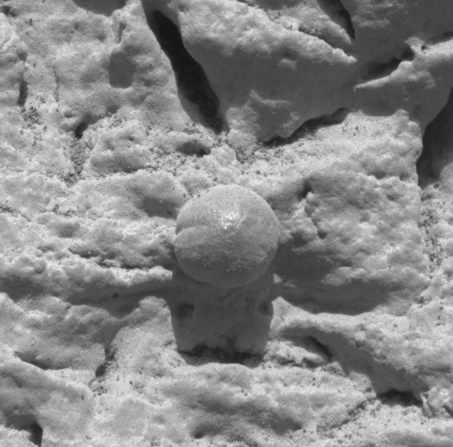 This image, taken by the microscopic imager on the Mars Exploration Rover Opportunity, shows a geological region of the rock outcrop at Meridiani Planum, Mars dubbed "El Capitan." Light from the top is illuminating the region. Several images, each showing a different part of this region in good focus, were merged to produce this view. The area in this image, taken on Sol 28 of the Opportunity mission, is 1.5 centimeters (0.6 inches) across.